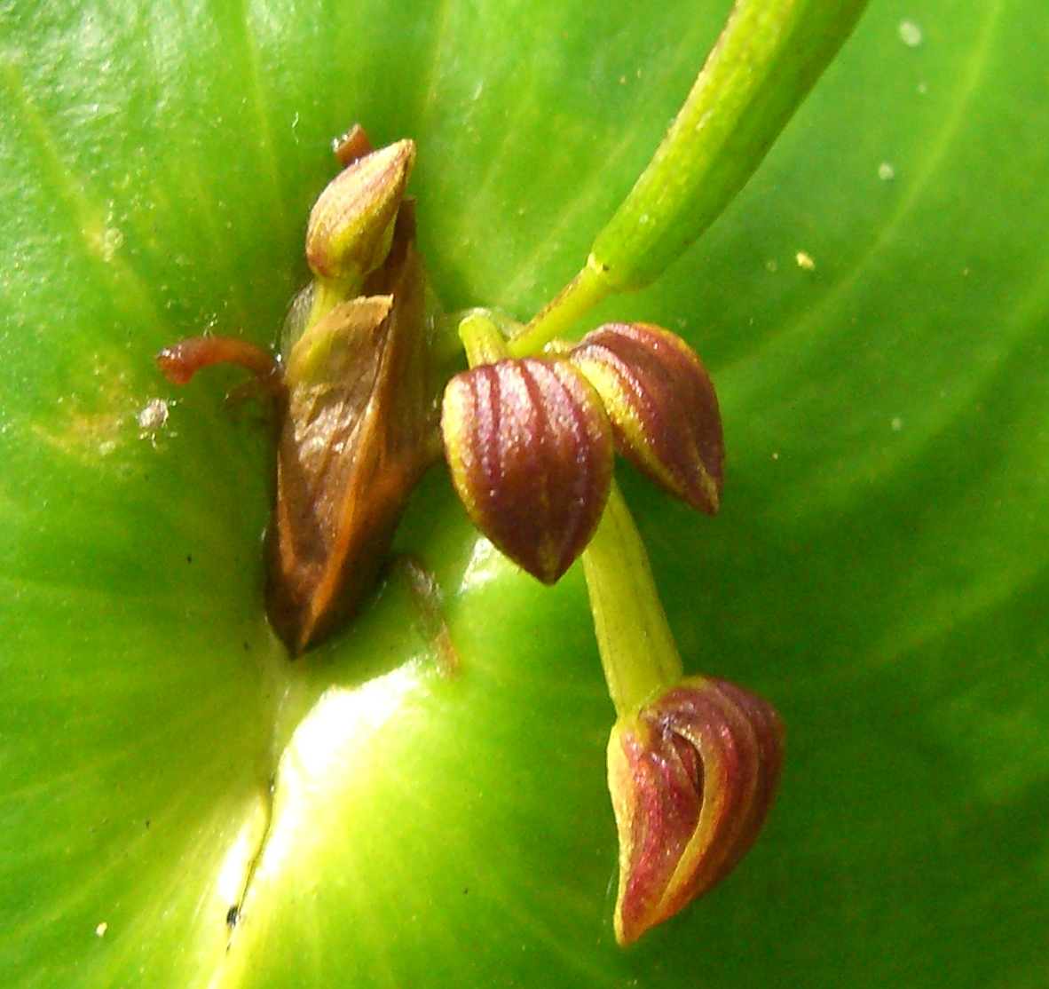 Please report references to .